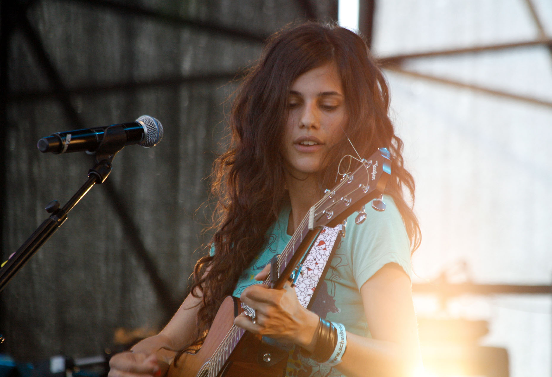 Anna F. - concert at the Donauinselfest in Vienna.